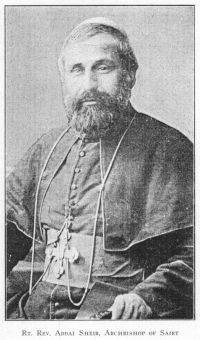 Addai Sher, Bishop of Siirt